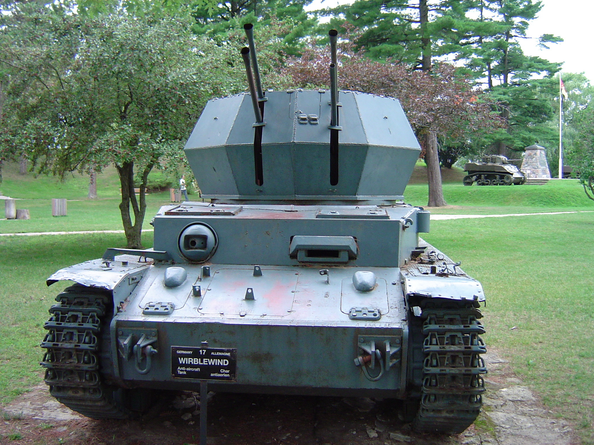 Flakpanzer IV Wirbelwind Worthington Tank Museum at CFB Borden (Ontario, Canada).